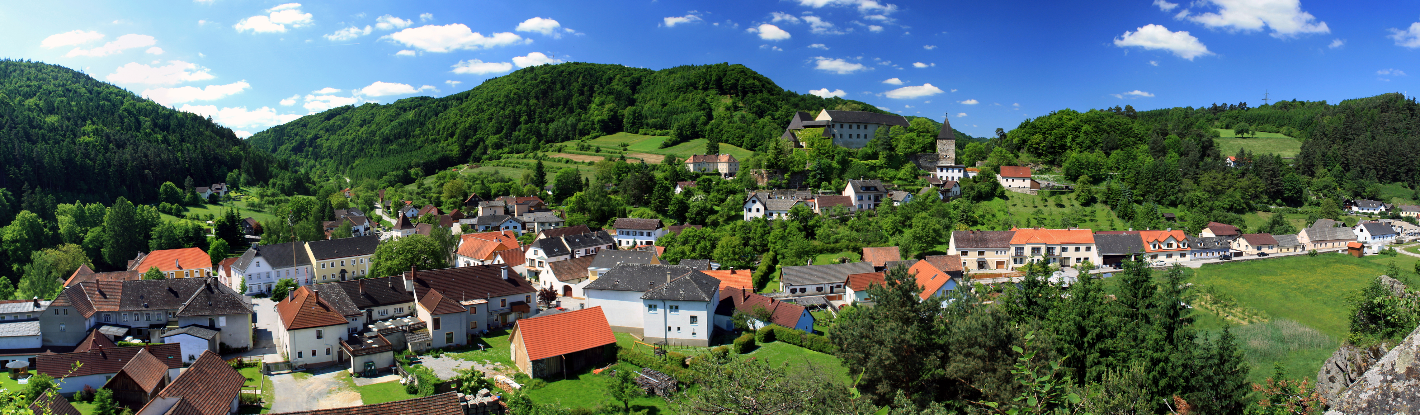 panoramic view of Krumau am Kamp, Lower Austria